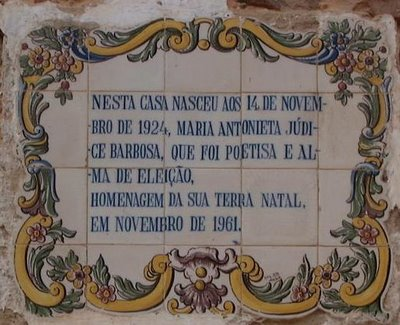 tiles that remember the poet Barbosa that was born in 1924 in a house in the Joao de Deus street in São Bartolomeu de Messines